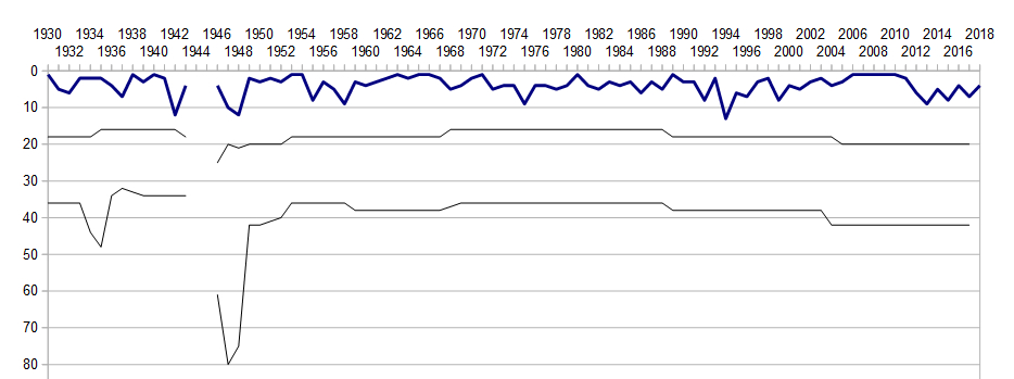 The progress of Inter in the Italian football league structure since the first season of a unified Serie A (1929/30). The data is from the Italian Wikipedia.